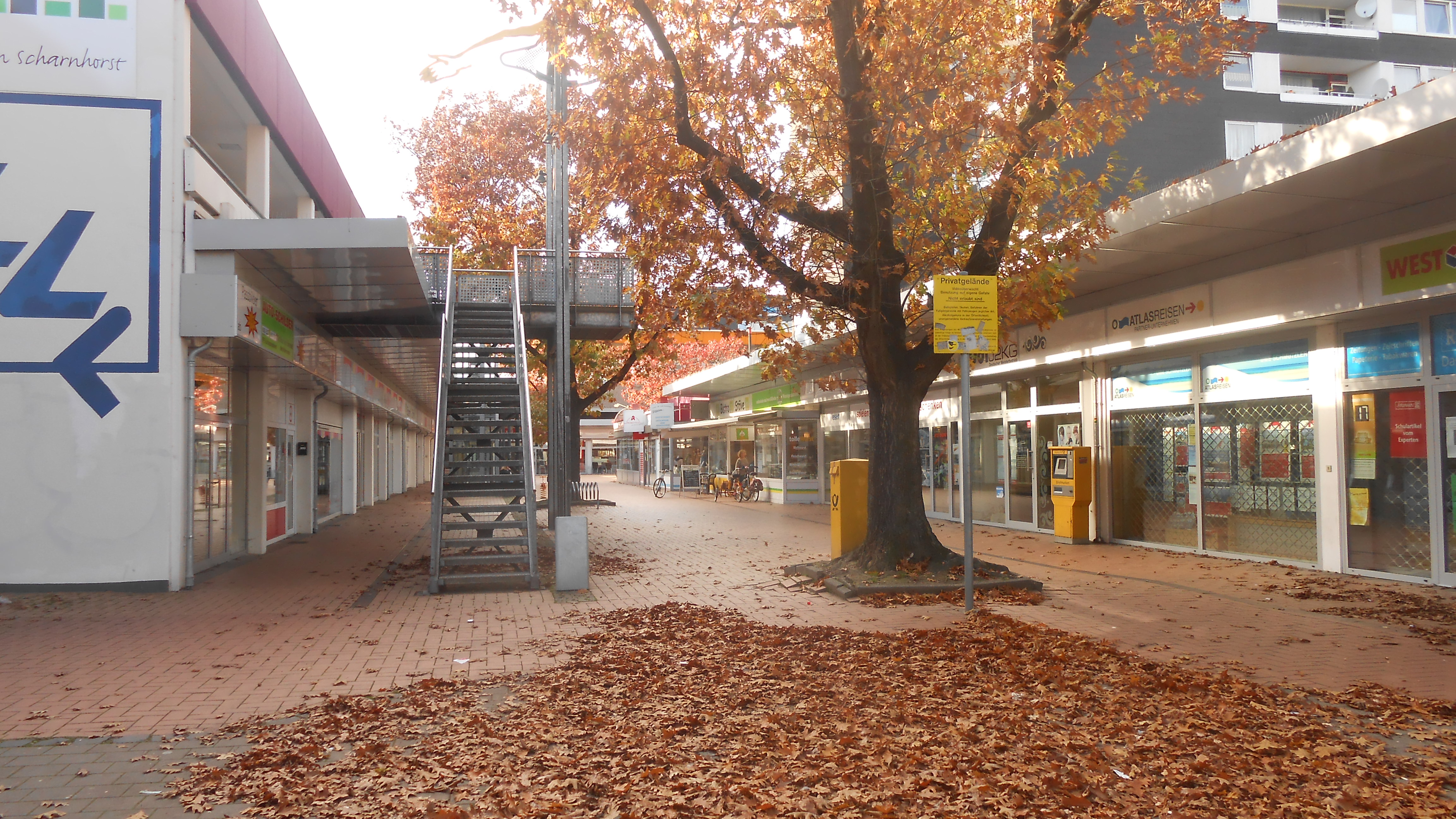 Sunday evening in autumn 2014, in the pedestrian zone of the newer part of Scharnhorst